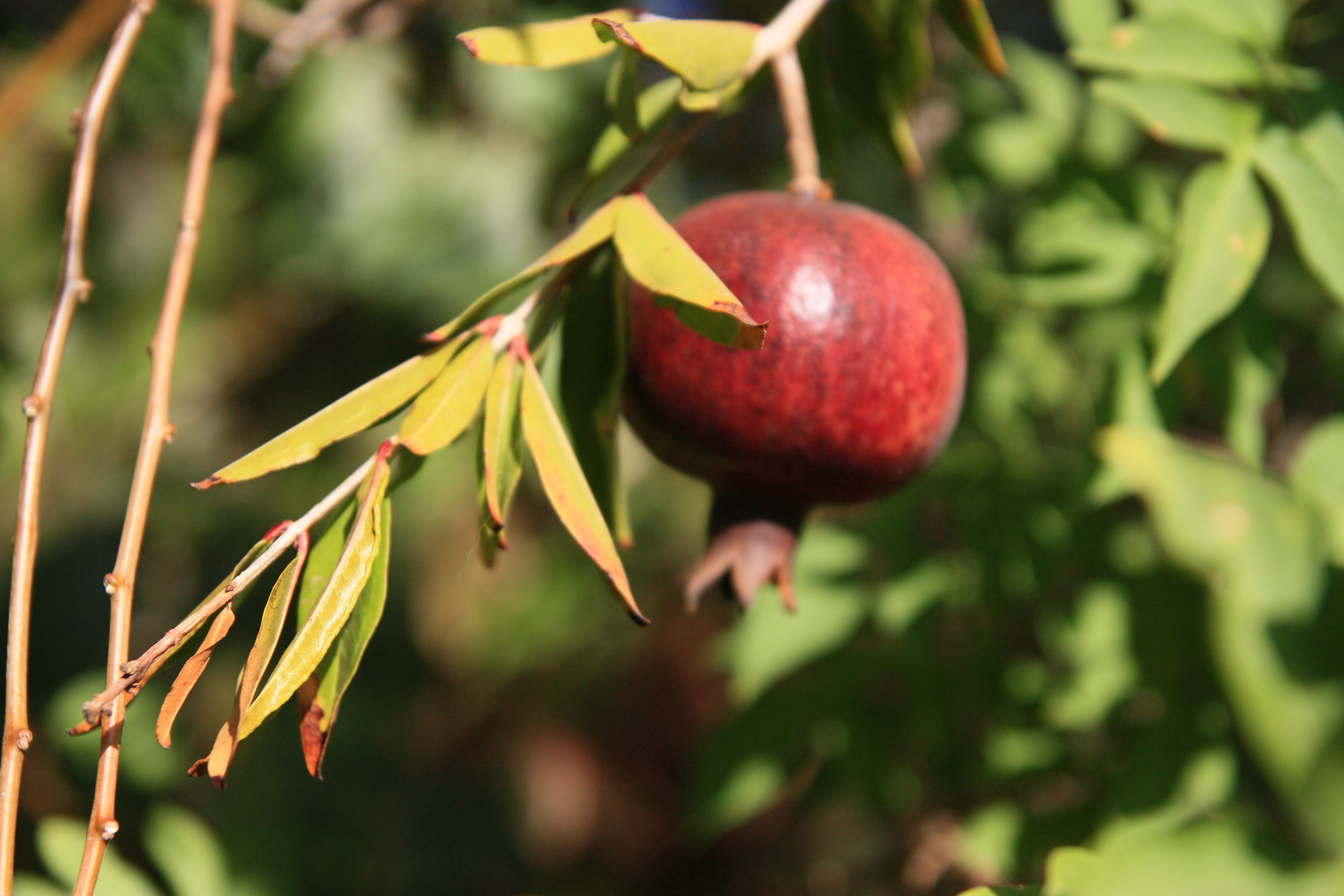 fruit trees